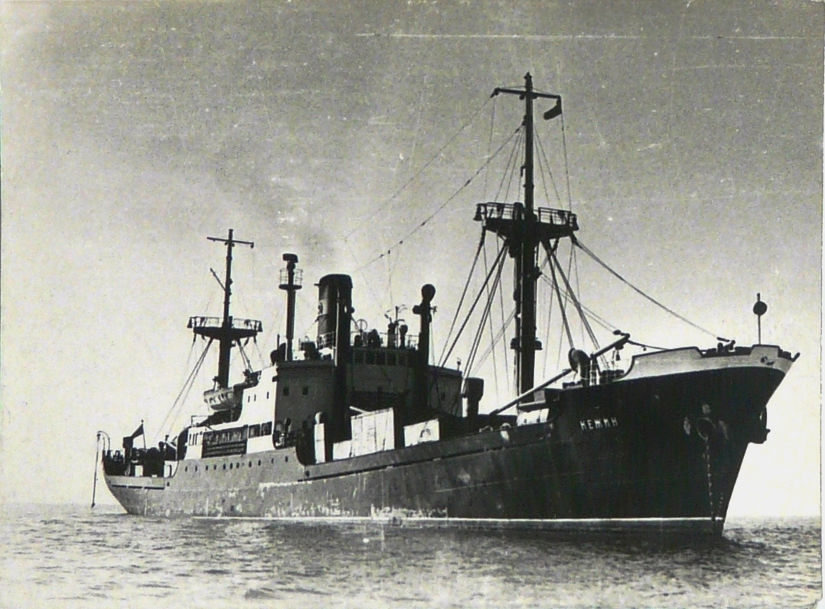 Soviet SS Nezhin at anchor between May 1956 and June 1958.